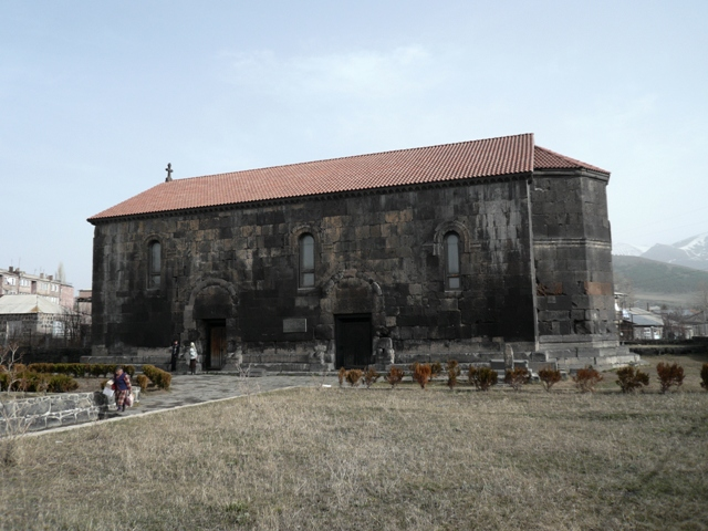 Aparan. Kasakh temple 2/2.1